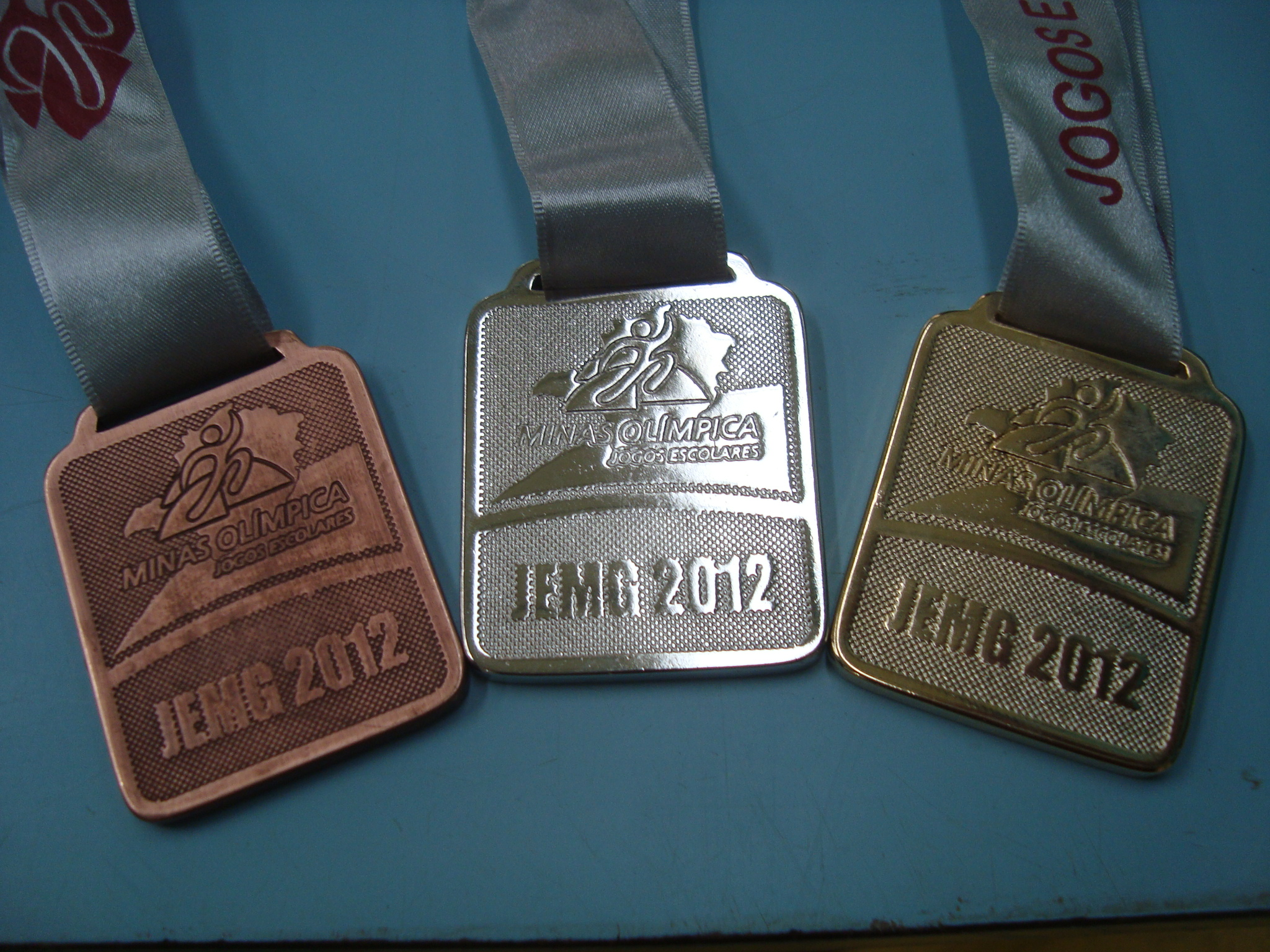 Bronze, silver and gold medals from the microrregional phase of the 2012 edition of JEMG, a scholar sports competition that happens in Minas Gerais, Brazil.